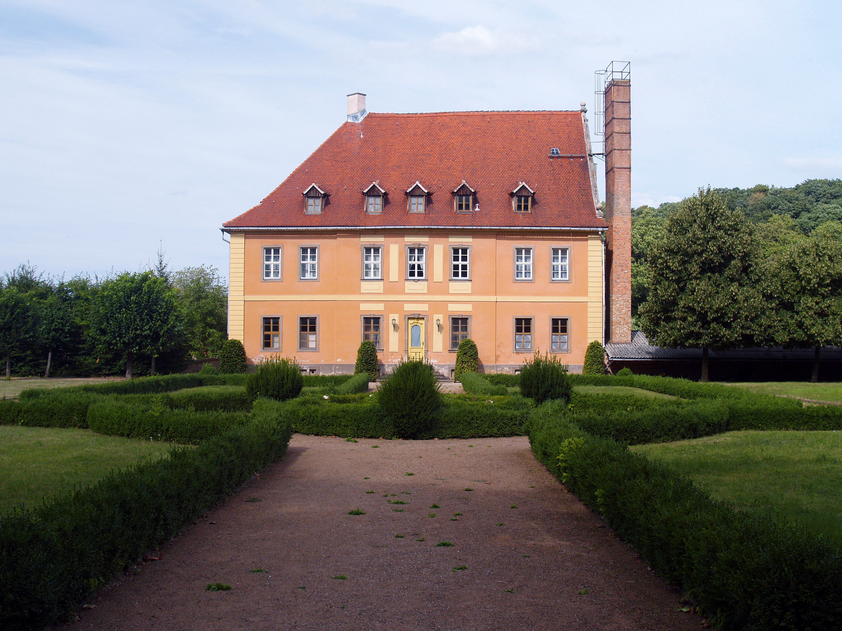 old manor with park in bucha